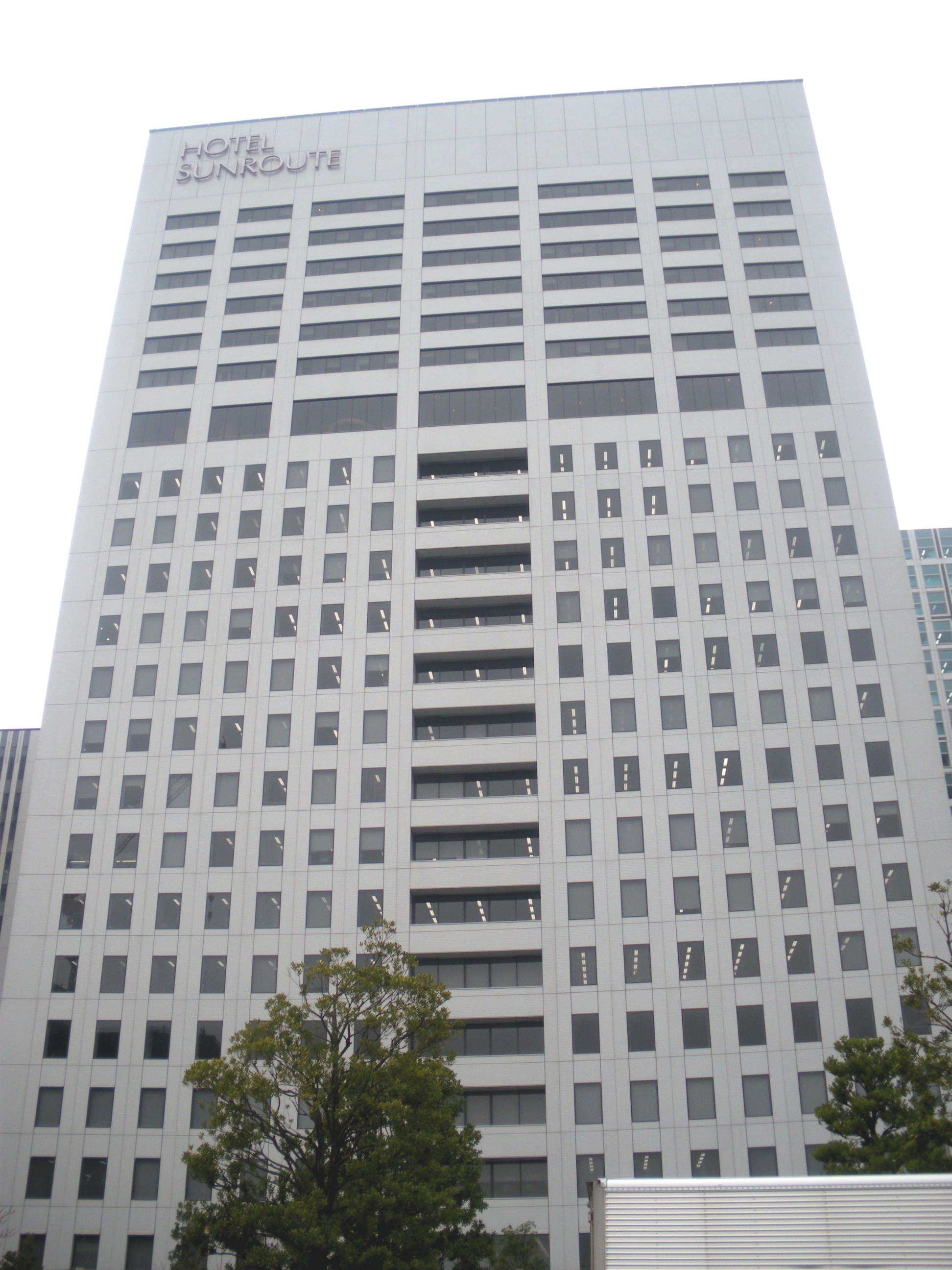 A photo of Shinagawa Seaside East Tower(HOTEL SUNROUTE SHINAGAWA SEASIDE).Higashishinagawa,Shinagawa-ku,Tokyo,Japan.